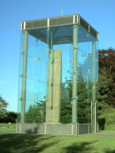 Sueno's Stone: Pictish symbol stone on the north-easterly edge of Forres, Moray, Scotland